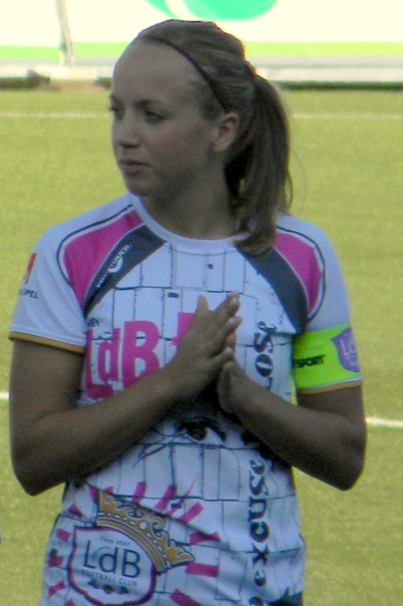 Malin Levenstad, a swedish player from LdB FC Malmö